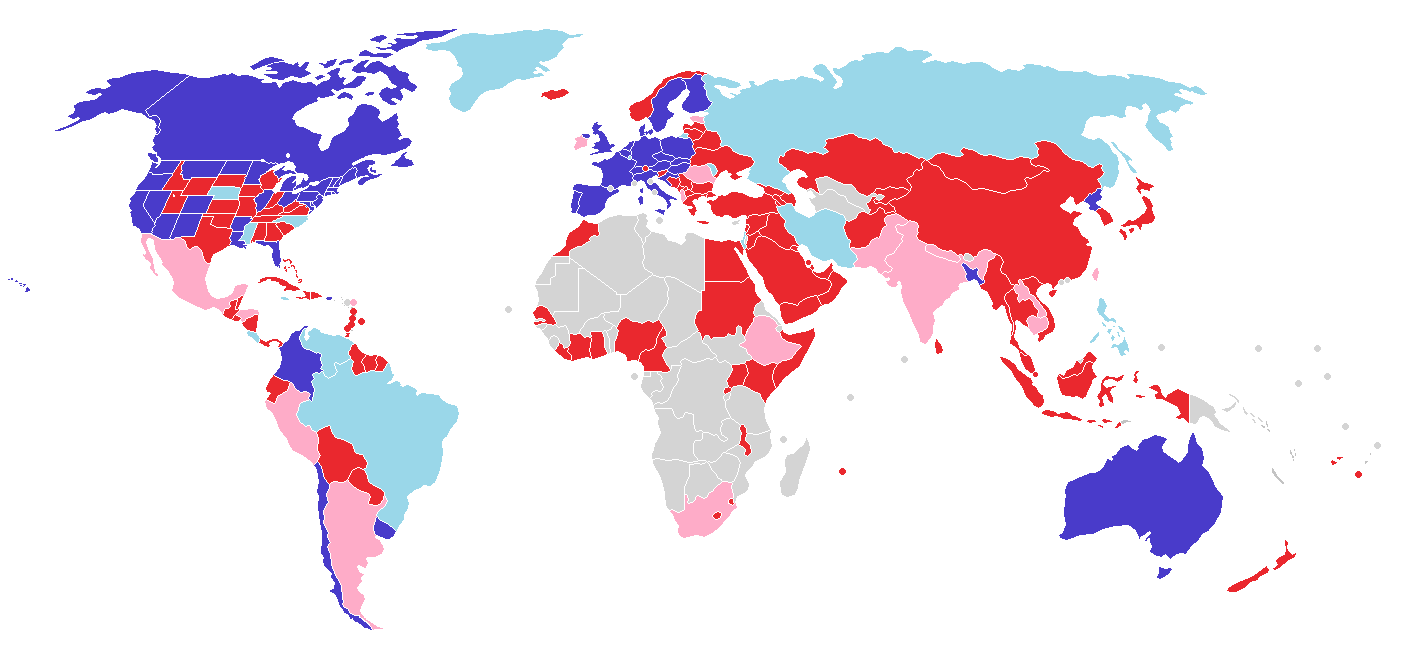 legality of medical marijuana map Legal or essentially legal Illegal but decriminalized Illegal but often unenforced Illegal No information